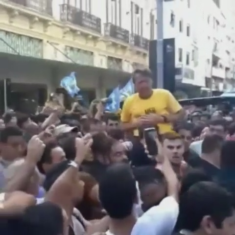 Deputy Jair Bolsonaro is stabbed while campaigning for president of Brazil.